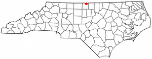 Category:North Carolina Dot Maps